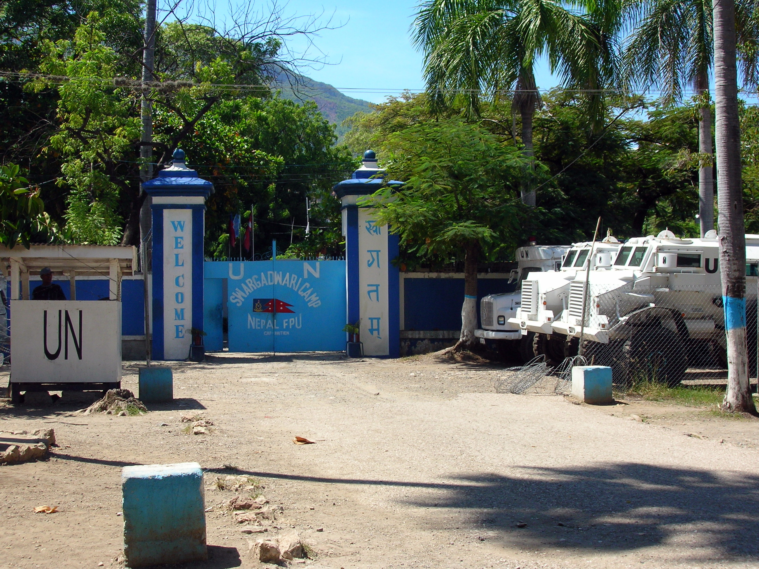 One of the bases of the Minustah in Cap-Haitien, with Nepali forces.